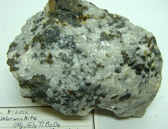 Warwickite. Collected by A. E. Foote, 1892, from Edenville, New York. Mineral collection of Bringham Young University Department of Geology, Provo, Utah. Photograph by Andrew Silver. BYU index 8-2052, Mg(Ti,Fe+3,AL)(BO_3)O.